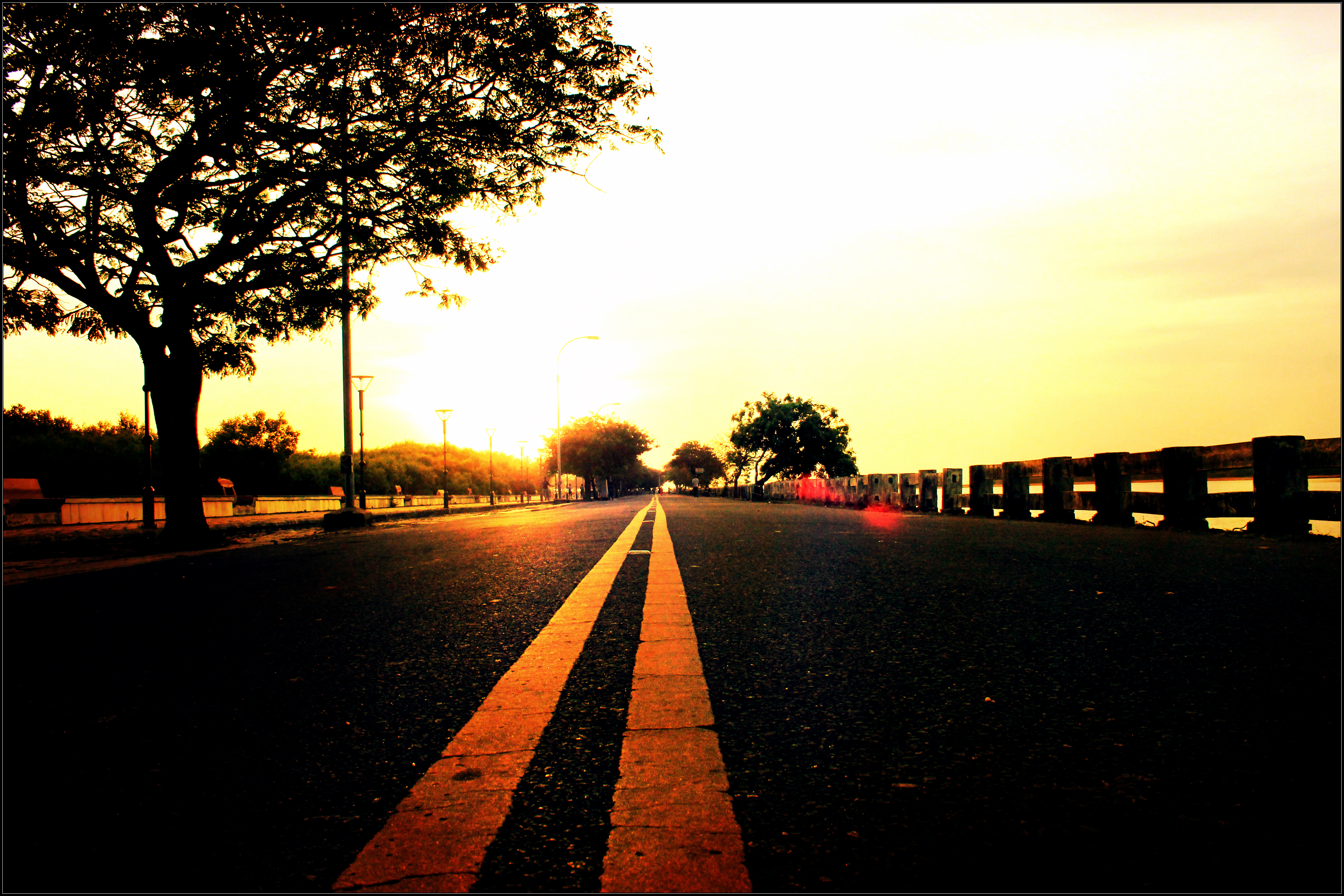 karaikal beach photo by prabhu namgyel camera used - cannon 550 d